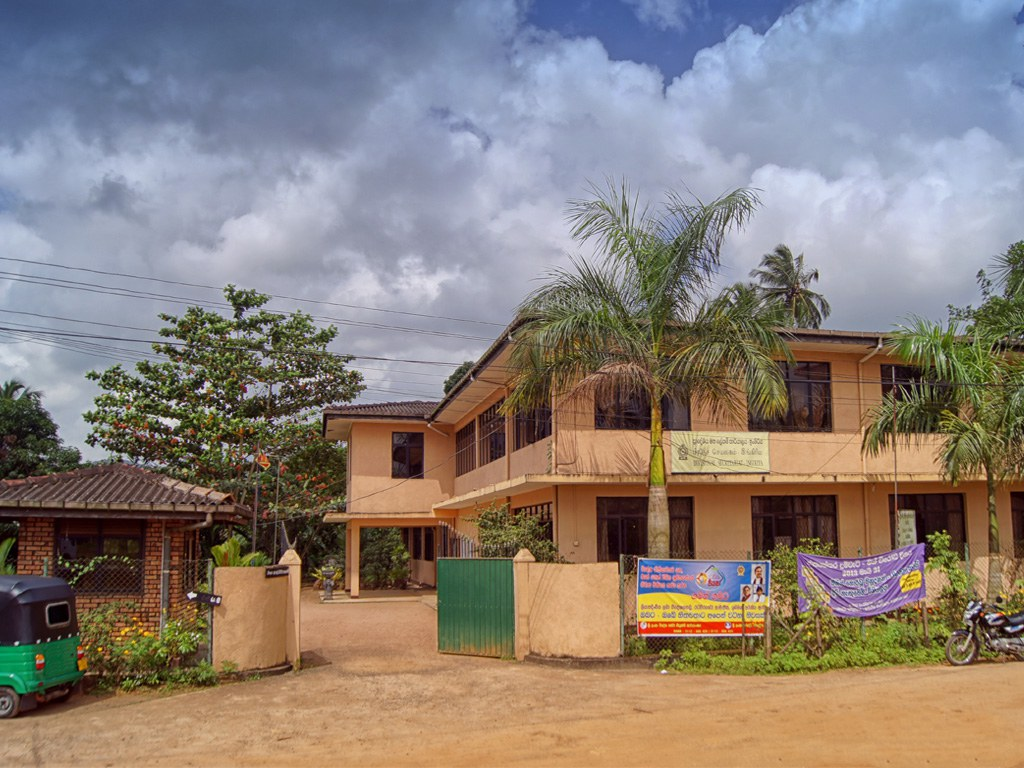 Ingiriya Administration04